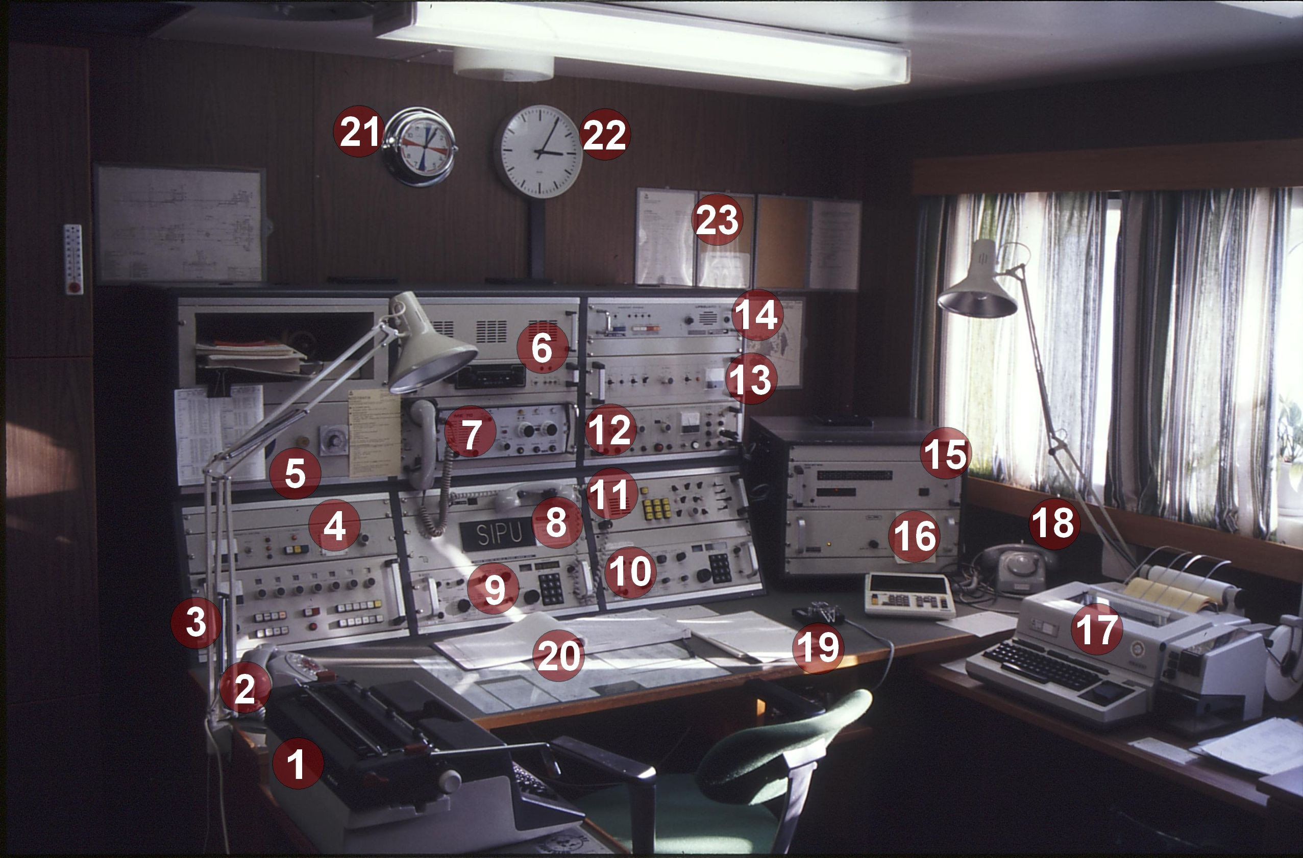 Radiostation onboard Wallenius Lines PCTC Madame Butterfly, callsign SIPU, with tags to explain equipment. Photo taken in may 1986.